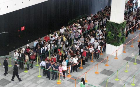 Shanghai Expo2010